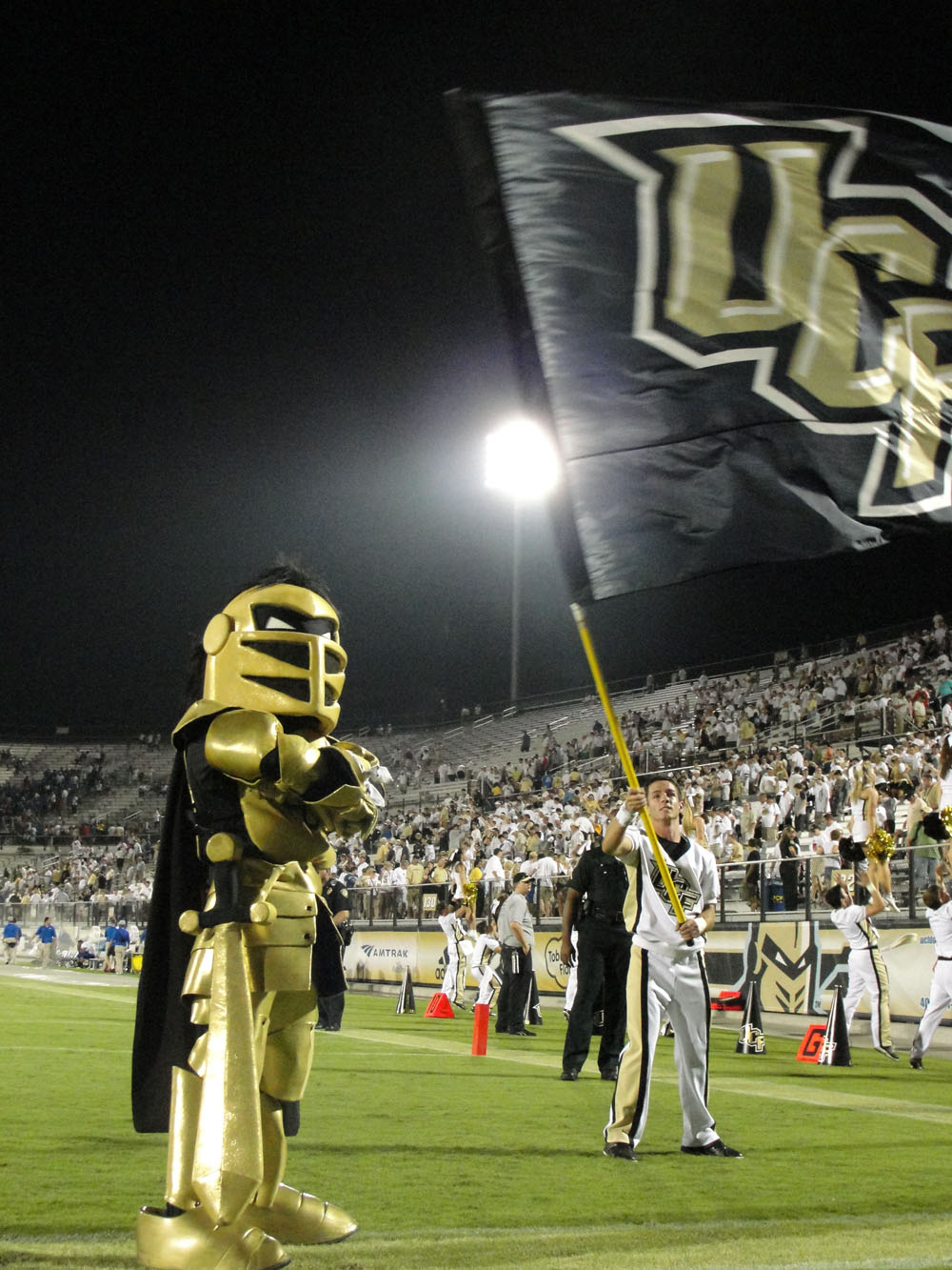 This is a photograph of UCF's Mascot, Knightro